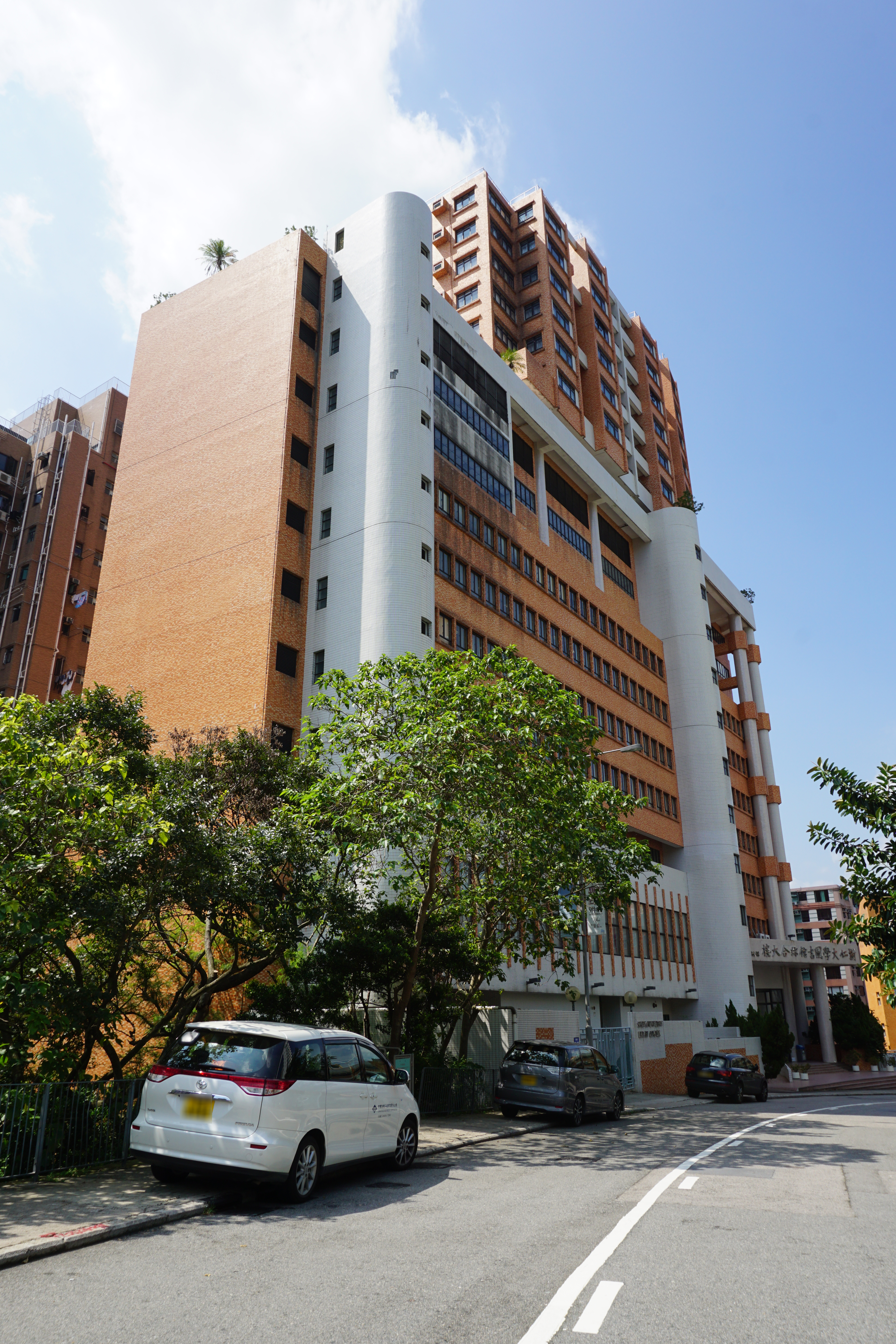 Shue Yan University in Braemar Hill, Hong Kong.